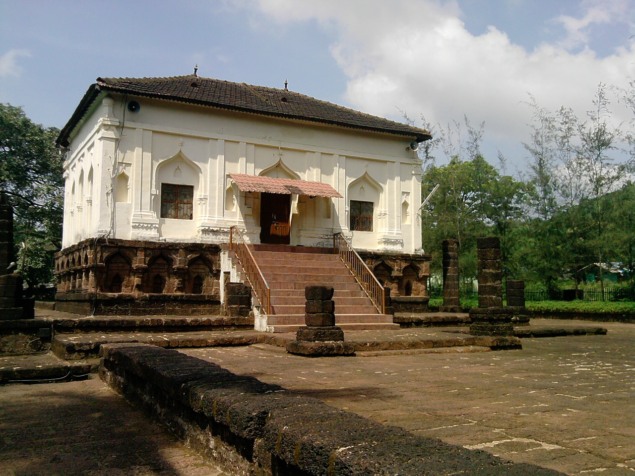 Safa Masjid